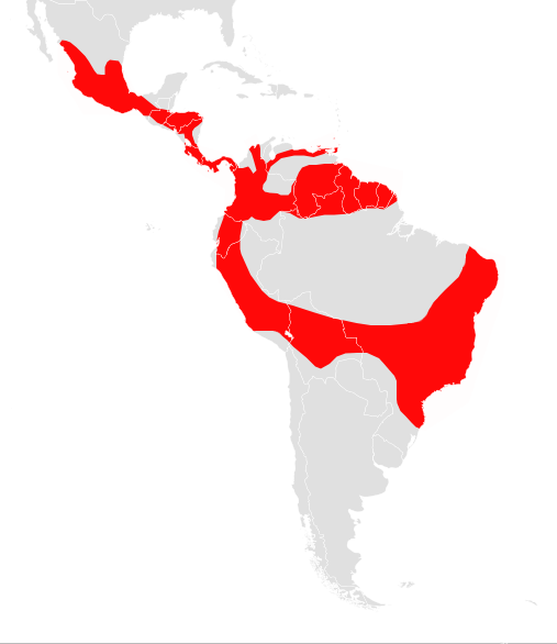 Distribution map of Anoura geoffroyi